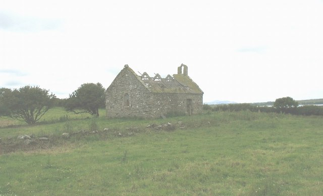 Approaching the ruined St Mary's from the North